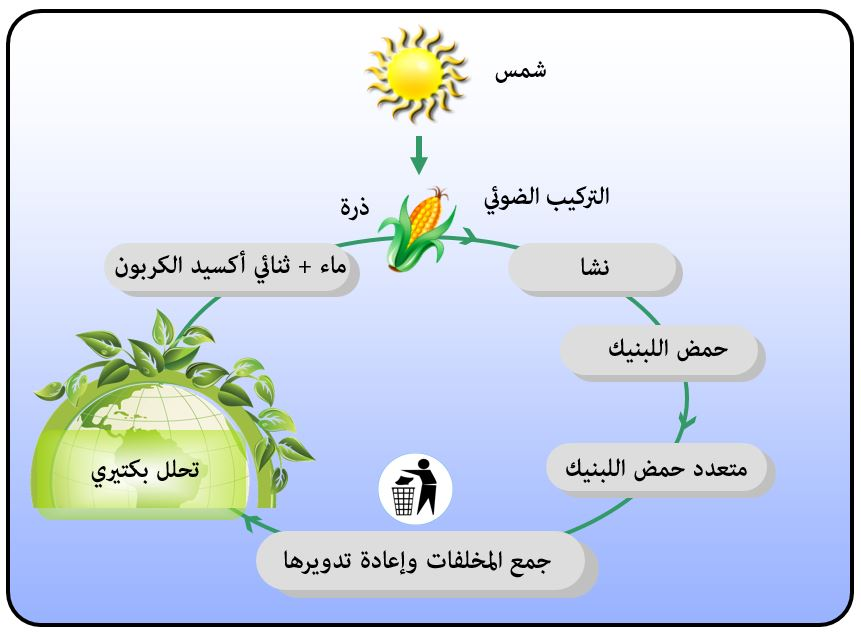 Recycling PLA in nature